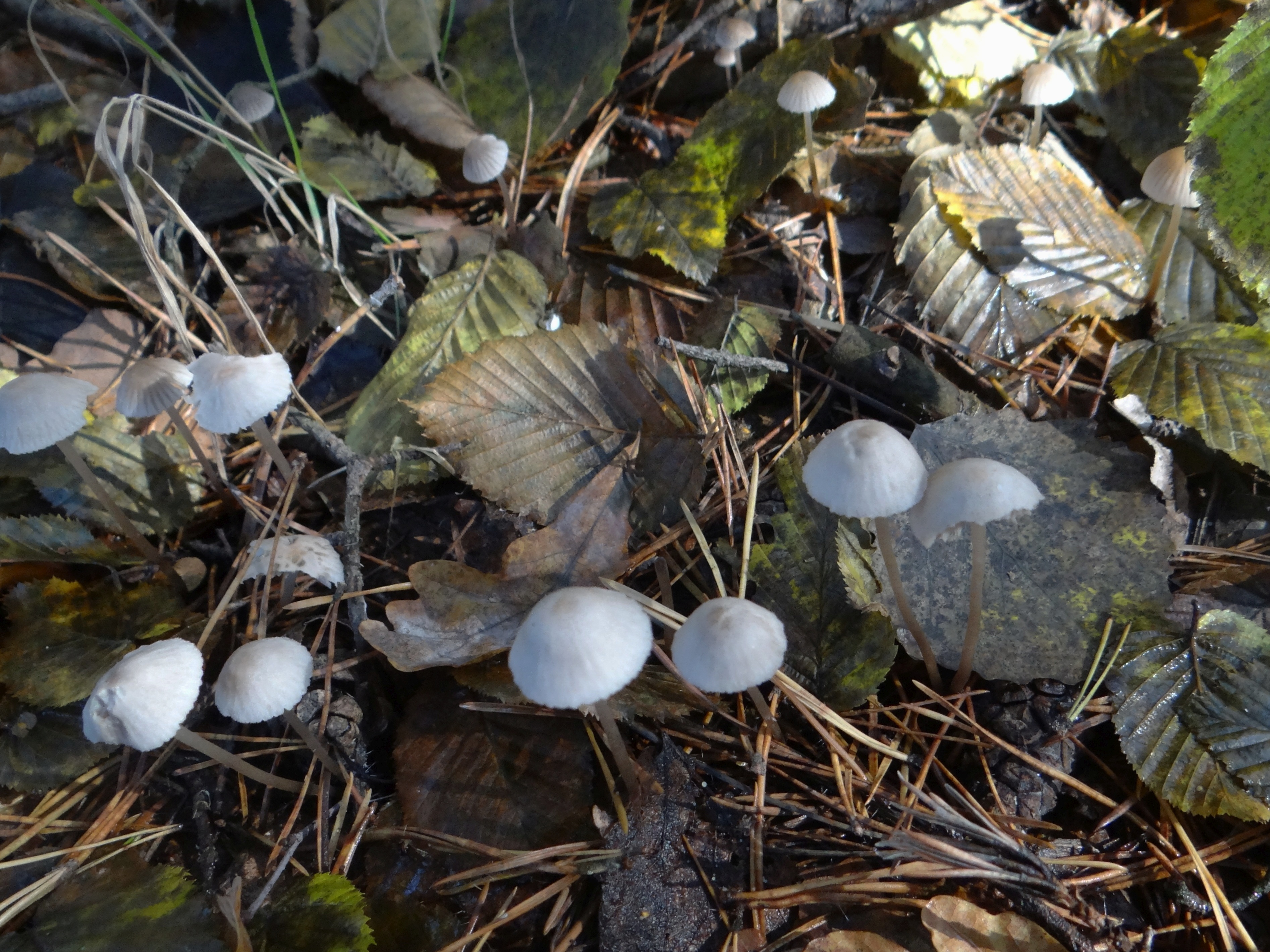 Mycena galopus (location: Poland, Rybie Nowe